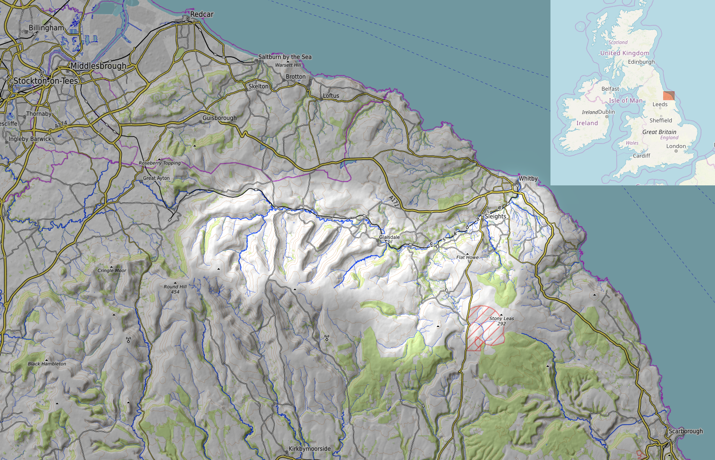 Drainage area of River Esk, North Yorkshire